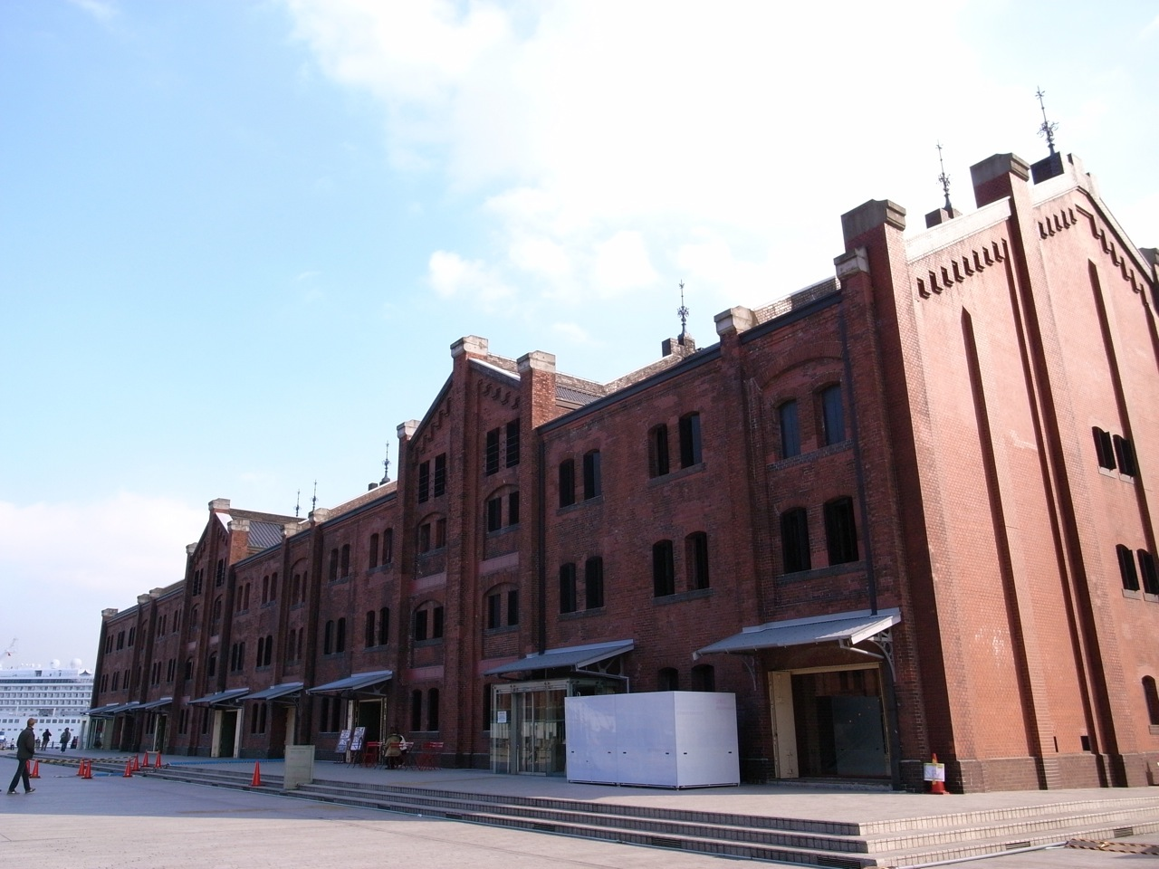 Yokohama red brick warehouse in Yokohama, Kanagawa, Japan.